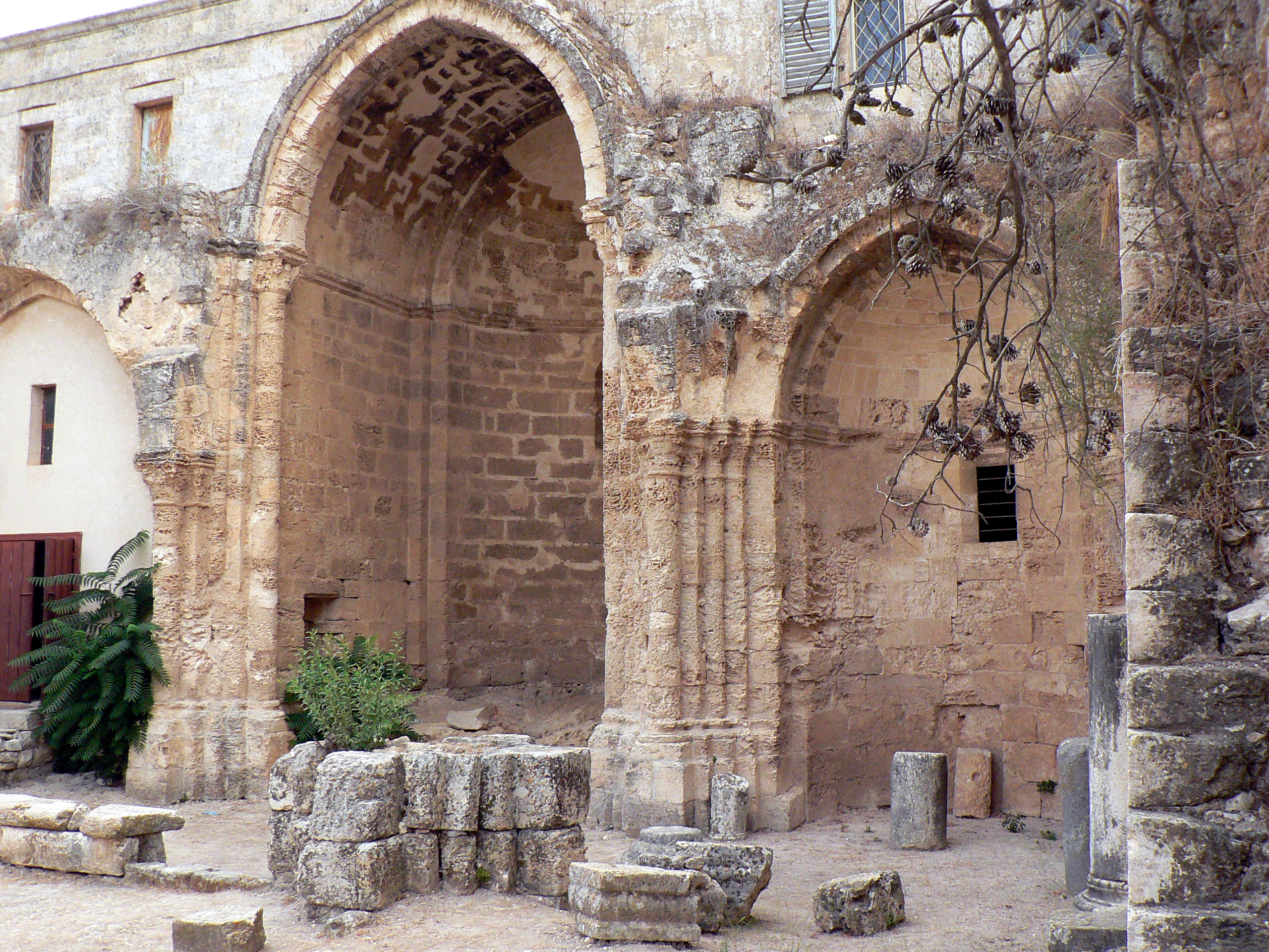 Zipori, Archeological sites of Israel